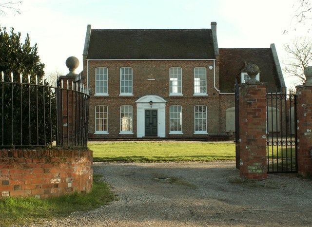 Fingringhoe Hall, Fingringhoe, Essex This house stands close to Fingringhoe church.